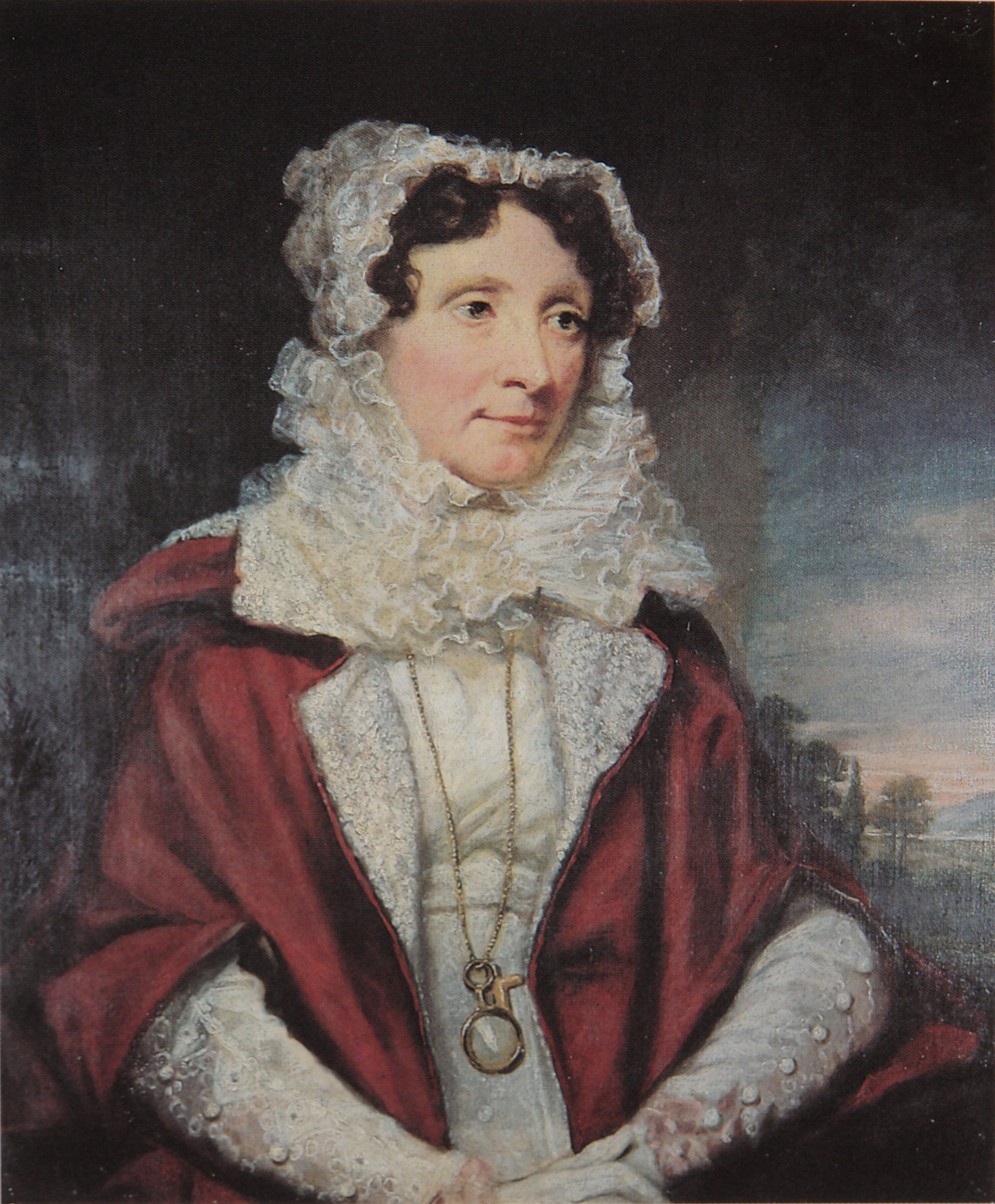 Margaret Ruskin, the mother of John Ruskin